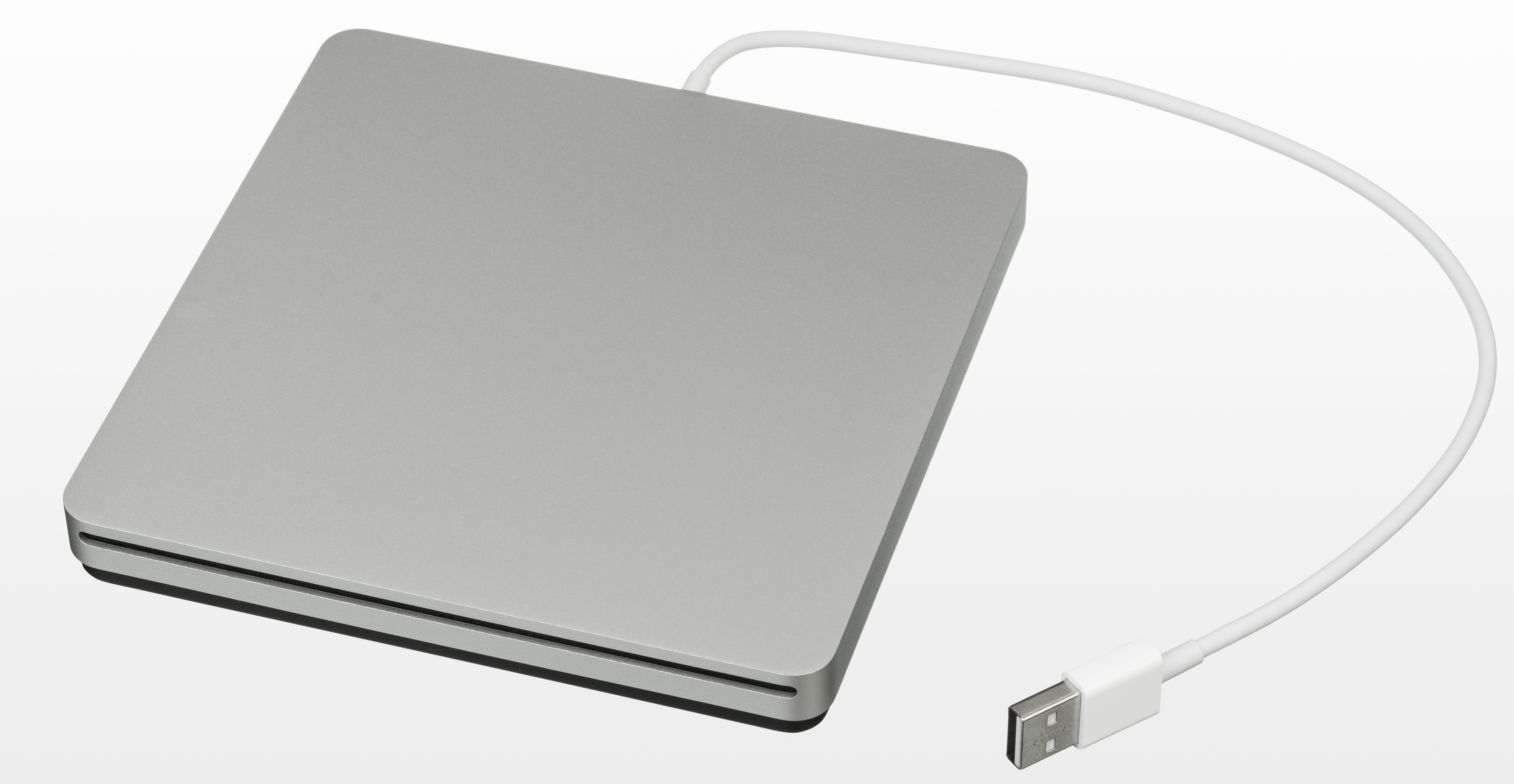 The Apple USB SuperDrive. Released after Apple began to move away from including internal DVD drives in their computers, this external DVD drive works with USB but requires a port with a higher power rating.